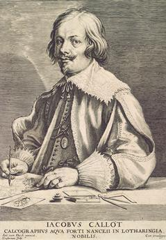 Portrait of Jacques Callot. Engraving by Lucas Vorsterman the Elder after Anthony van Dyke